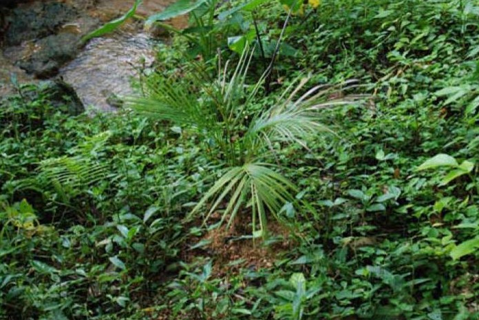 Calyptronoma rivalis USFWS photo